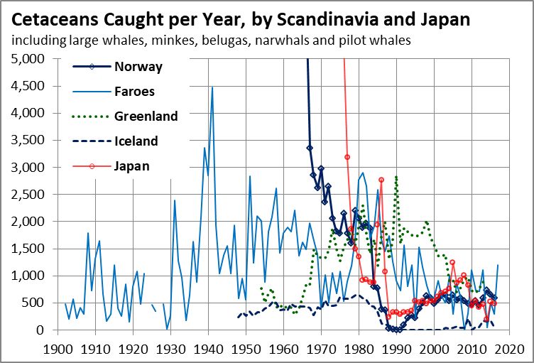 Whales caught (Greenland includes belugas since 1954, narwhals since 1970, large whales since 1986 and pilot whales 1998-2009), from